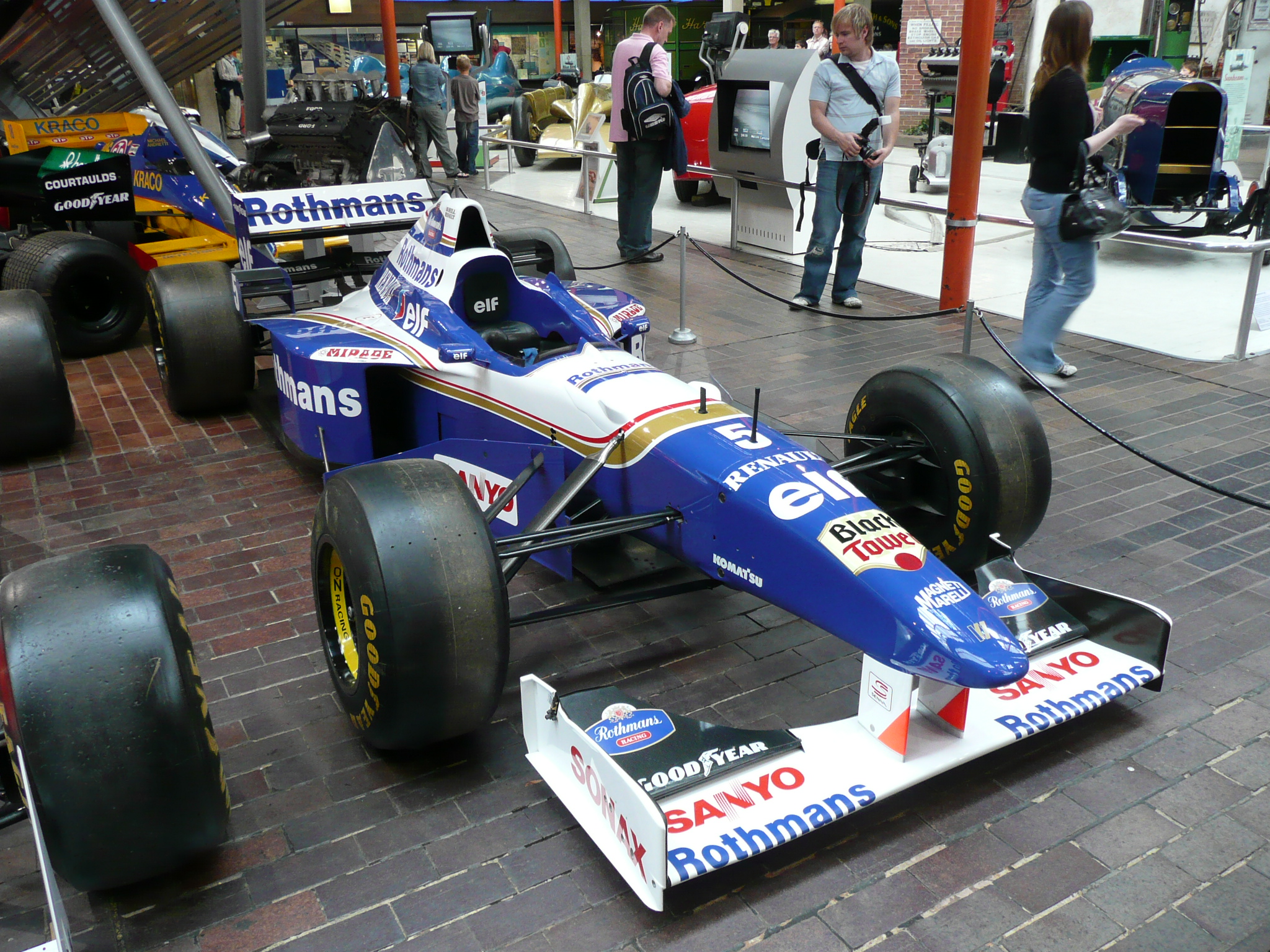 1996 Williams-Renault FW18, National Motor Museum in Beaulieu.